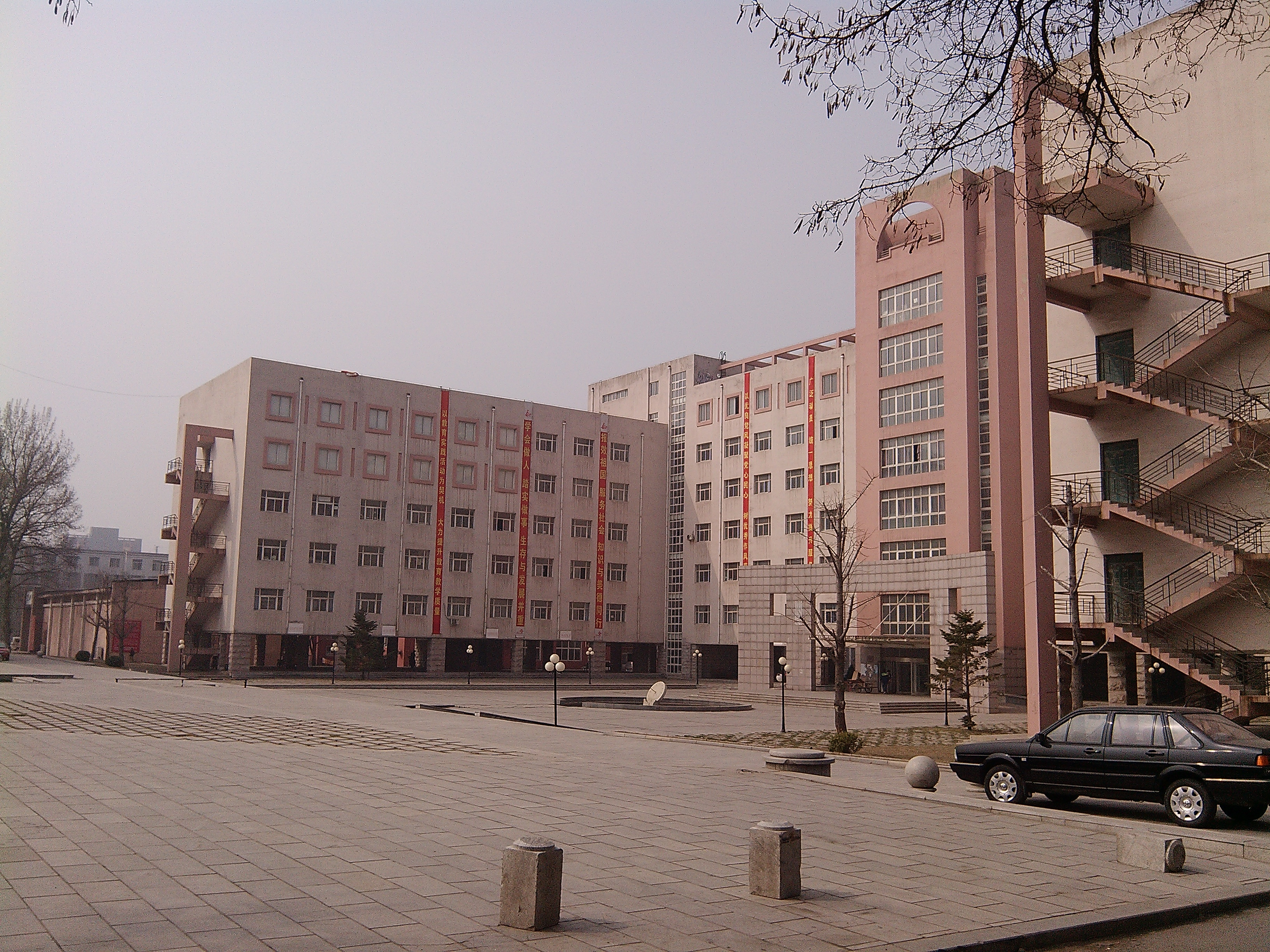 A large square with a fountain in the middle sits before several buildings with a pink rendering. The buildings are used for teaching as part of Anshan Normal University.